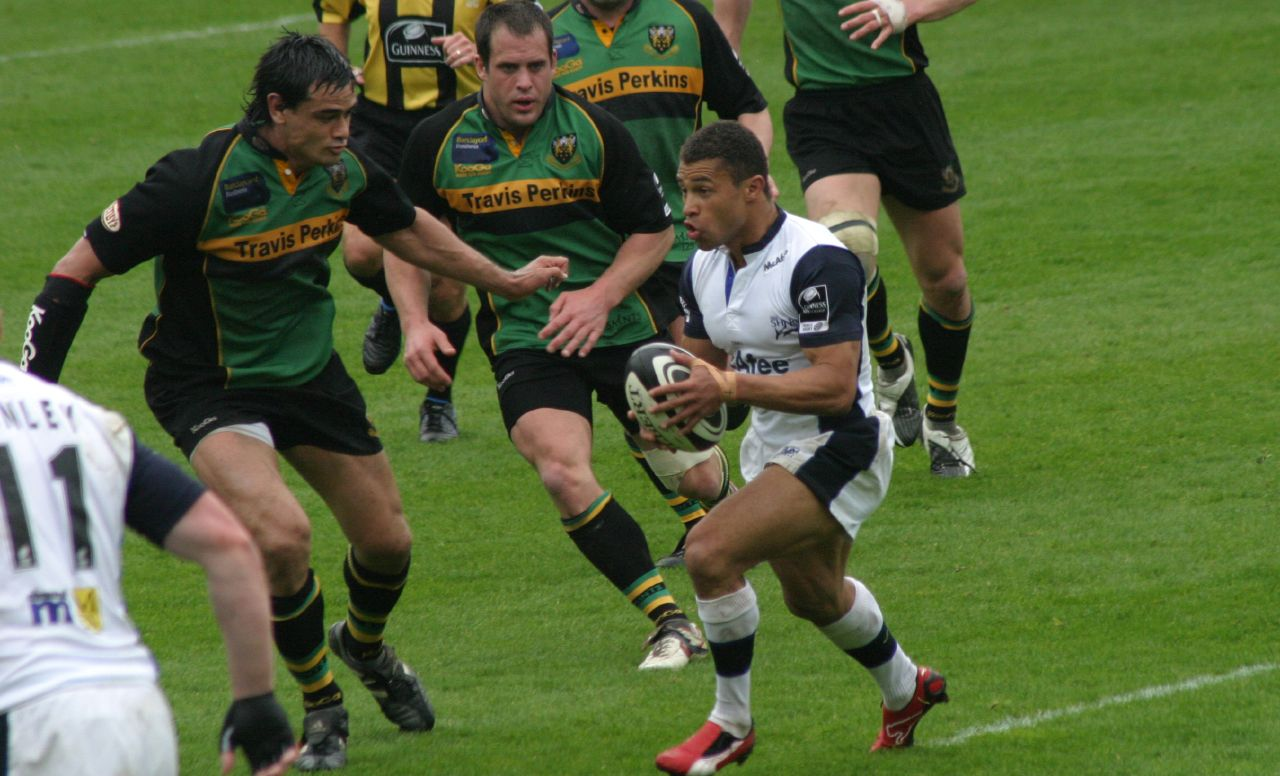 Jason Robinson during a match of the Guinness Premiership between the Northampton Saints and the Sale Sharks. The match took place in Franklin's Garden on the 6th of may 2006. Sale won 36-64.